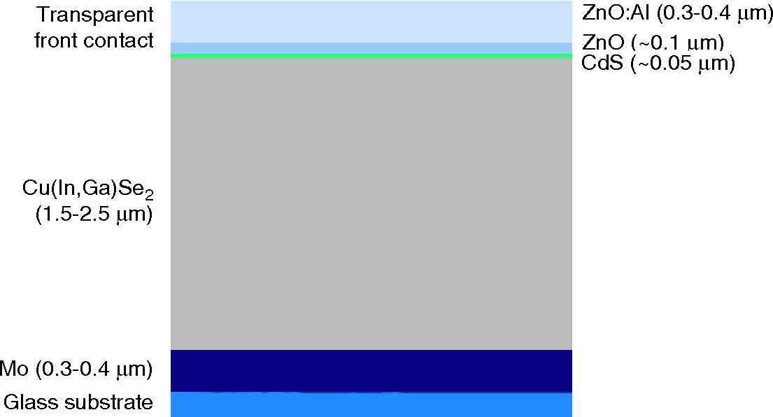 Schematic cross-section of a CIGS thin-film solar cell.